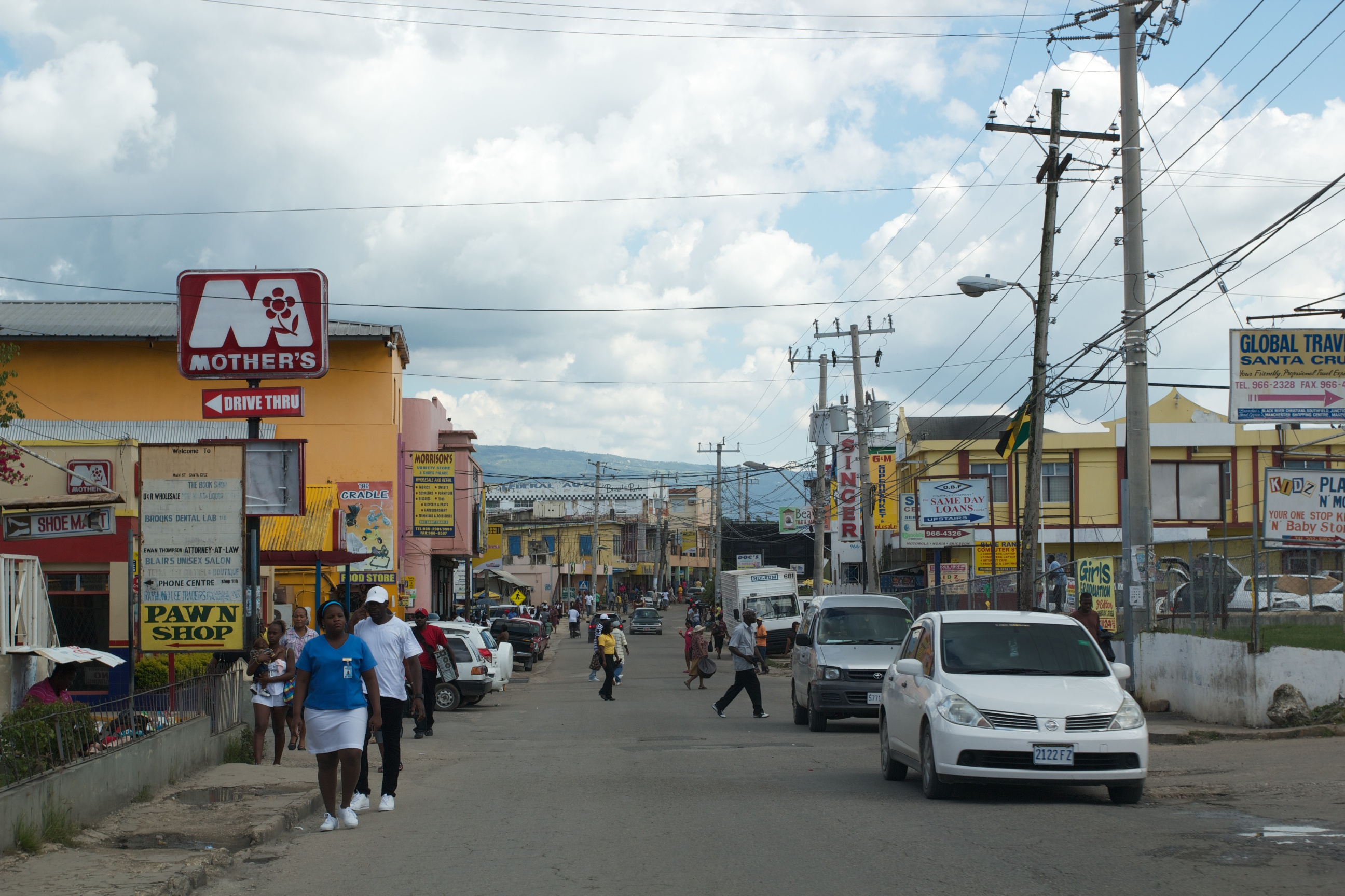 Photo of the main road through Santa Cruz, Jamaica.